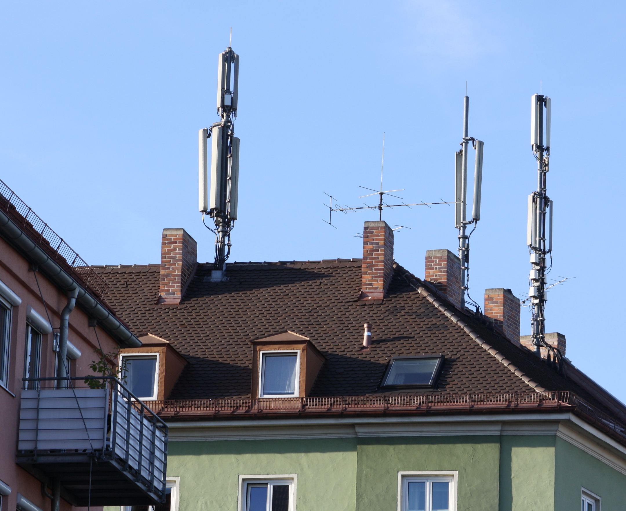 Base station of mobile phone on top of a house in Munich Sendling (Gotzingerplatz)